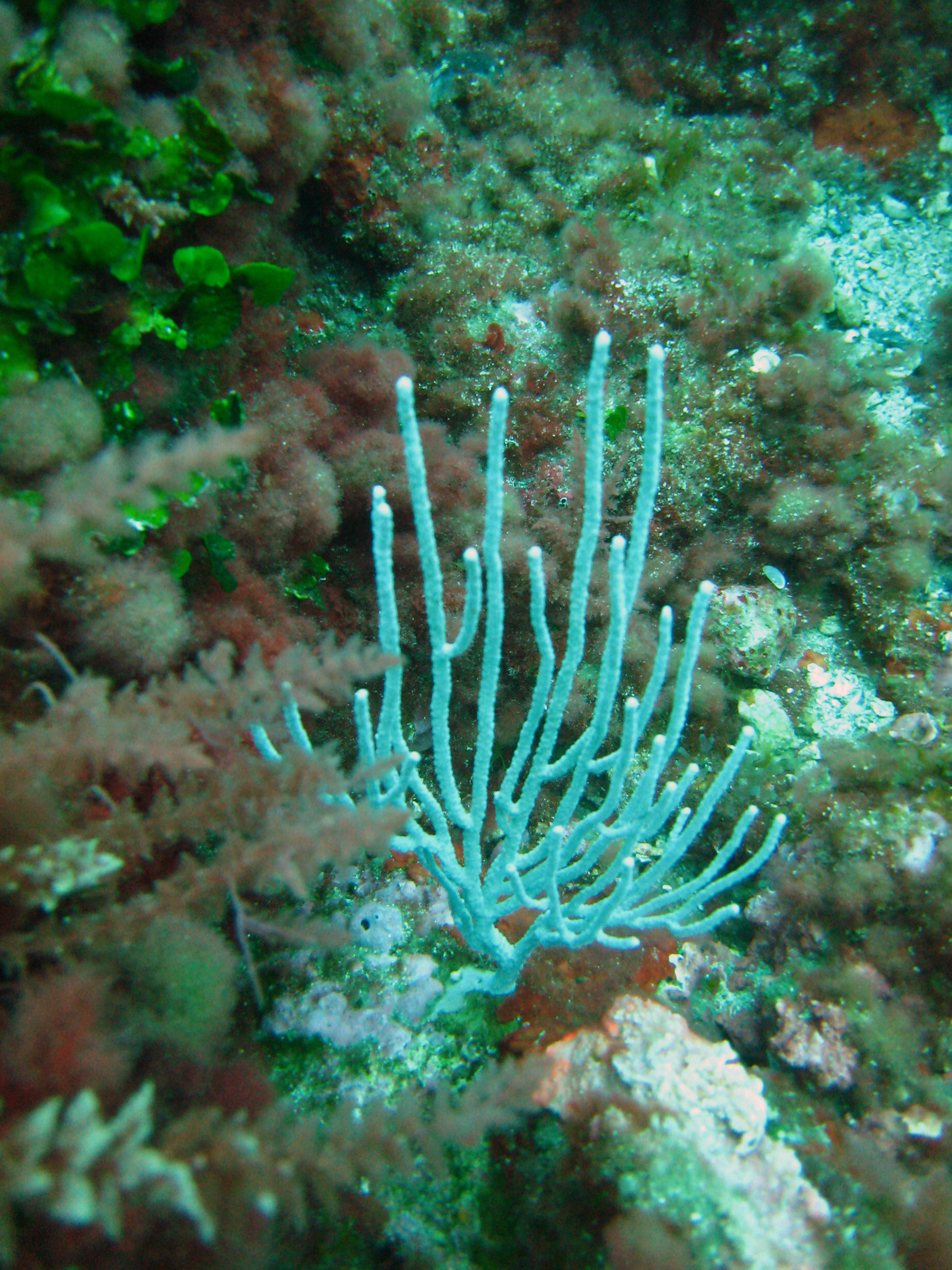 Eunicella singularis. Picture taken in Niolon near Marseilles